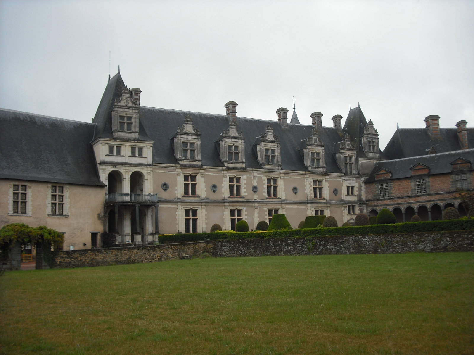 Jean de Laval aisle, château of Châteaubriant, France.